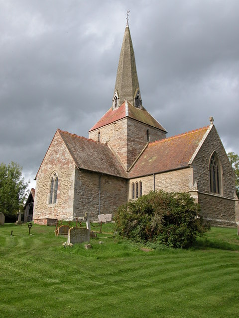 Neen Sollars church Inside Neen Sollars church there is an interesting tomb and effigy to Humphrey Coningsby who died in the early seventeenth century. He was widely travelled having spent time in countries throughout Europe and the near east.